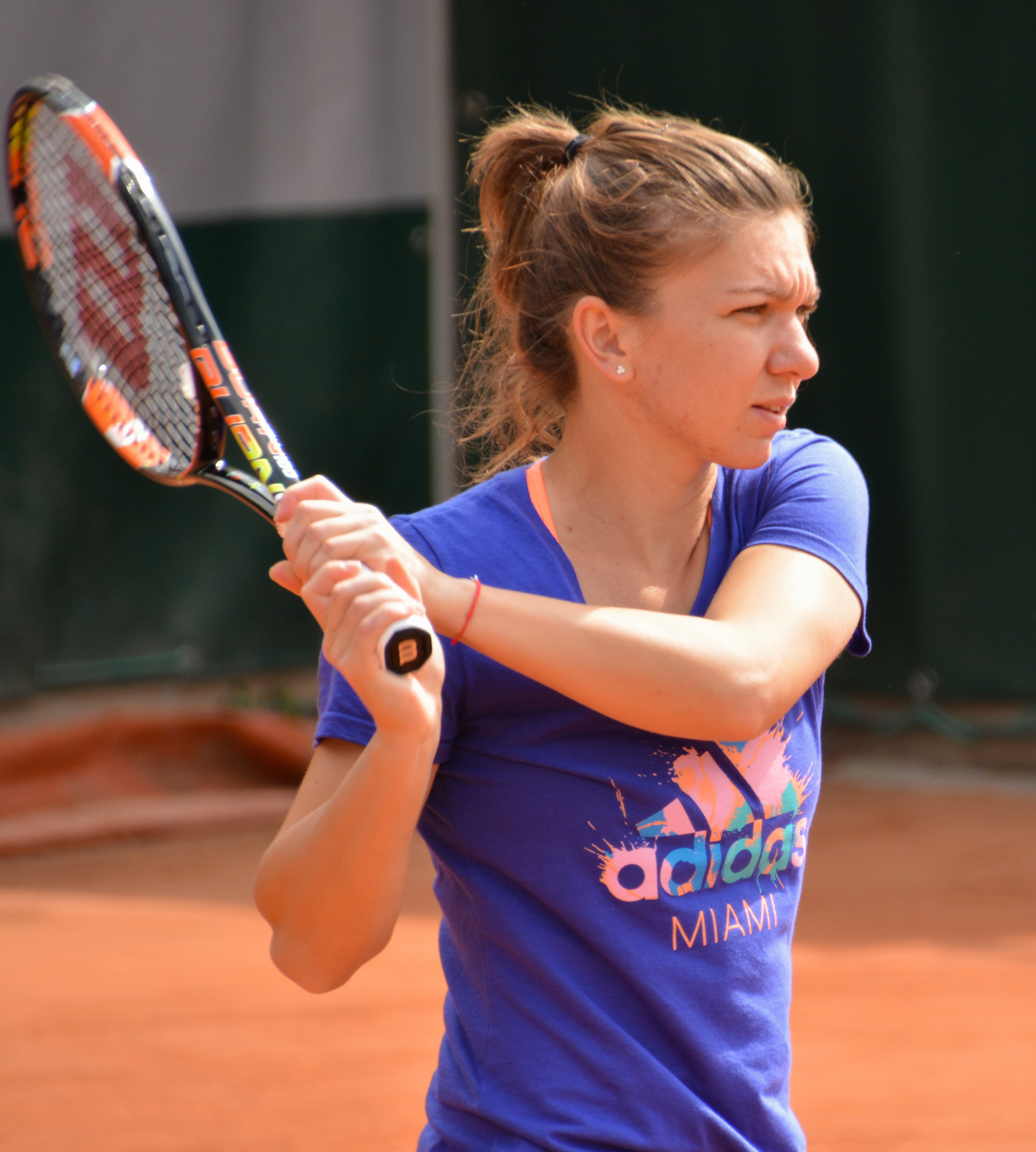 On the practice court. Day 4 of Roland Garros 2015.